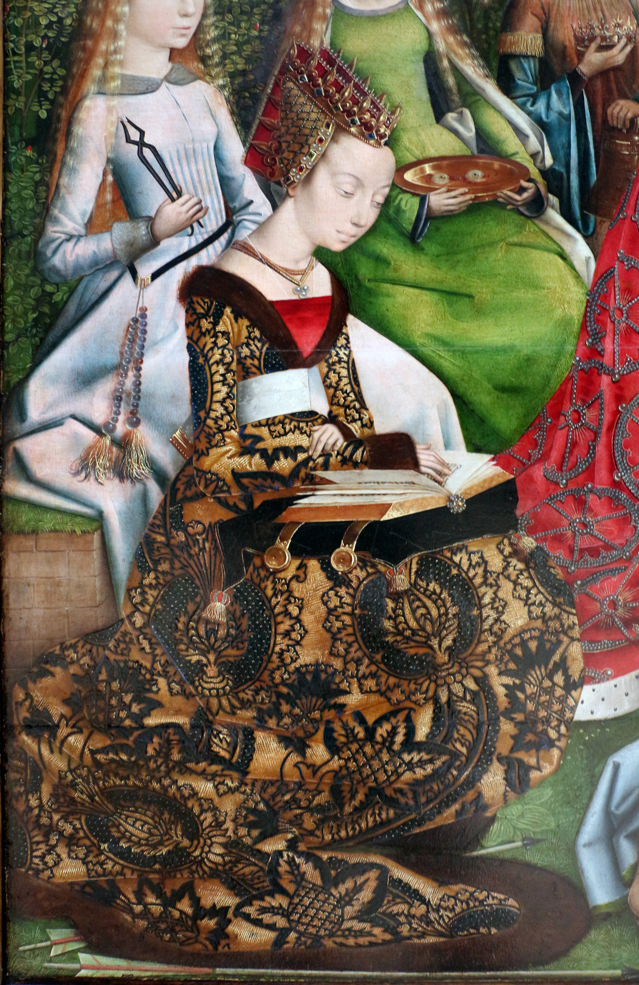 Paintings in the Royal Museums of Fine Arts of Belgium